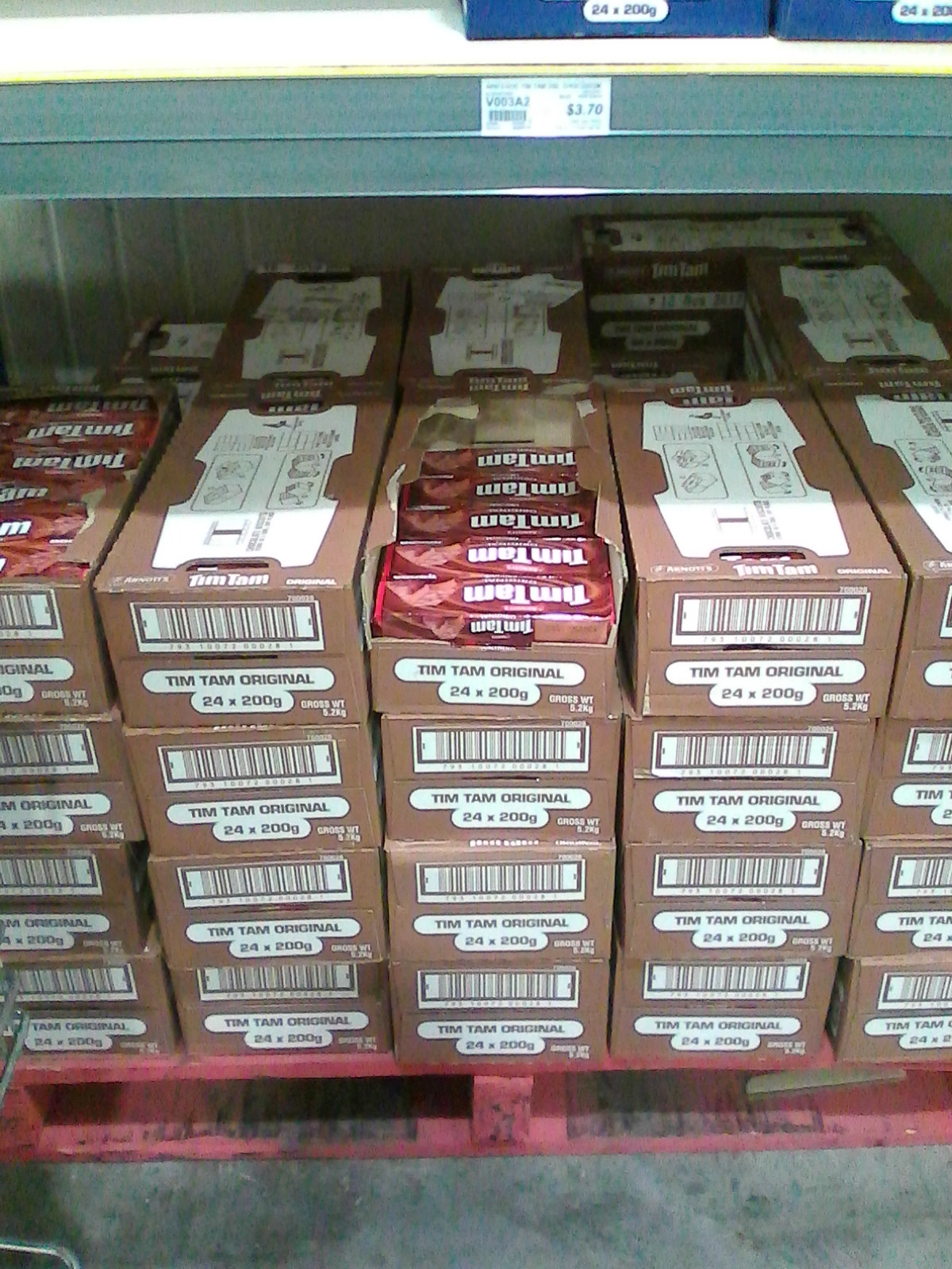 pallet of original Tim Tams on sale at a food wholesaler in Western Australia 2017